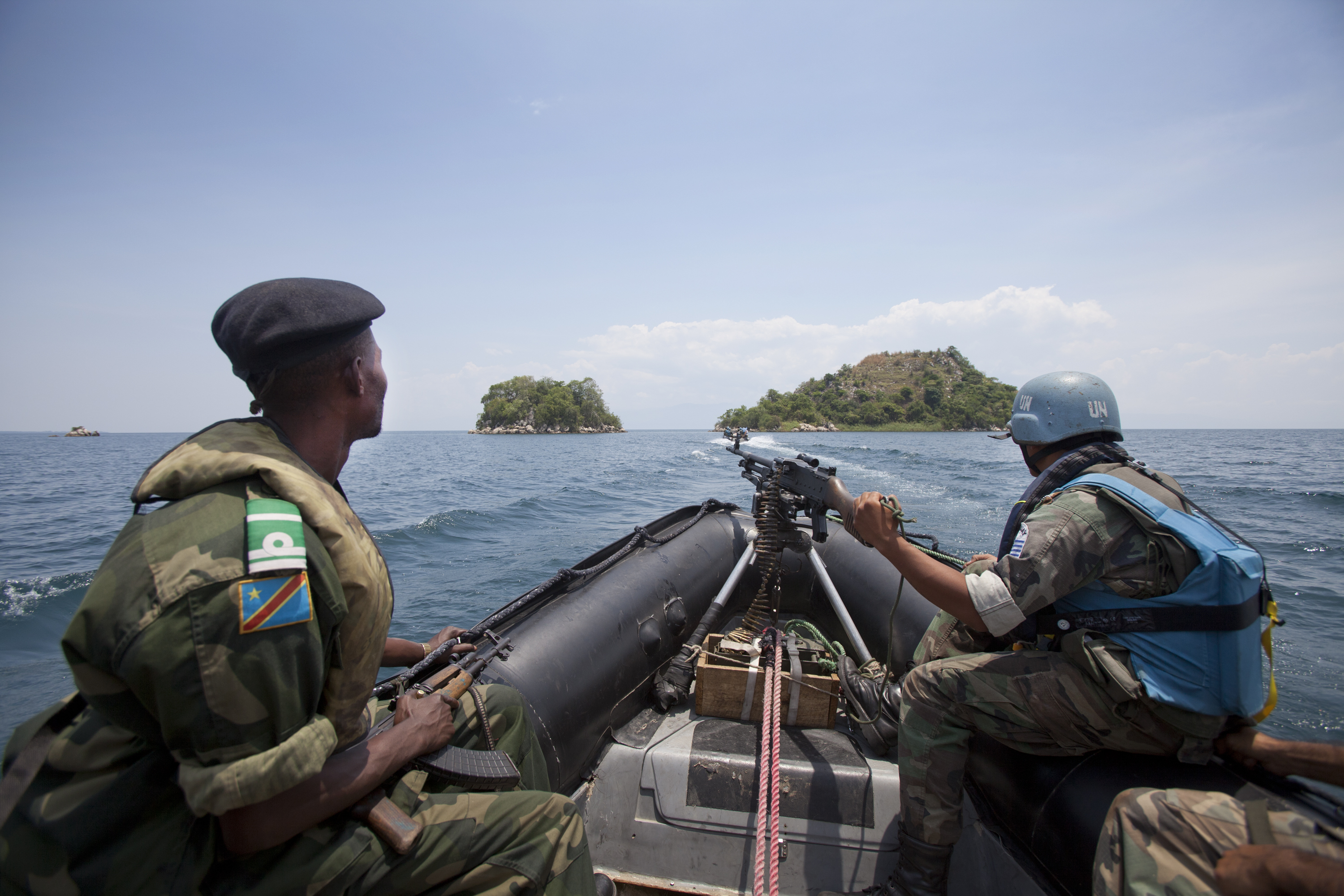 Launched from UN 12 vessel, members of MONUSCO Uruguayan Riverine Company, URPAC along with FARDC Navy, patrol small islands on the DRC side of Tanganyika Lake, the 17th of October 2012. © MONUSCO/Sylvain Liechti Besides its key logistical purpose, "UN 12" ship travels along the DRC border of Tanganiyka lake with armed personnel onboard in an effort to beat piracy, smuggling and illegal taxation imposed by local armed groups on commercial vessels.